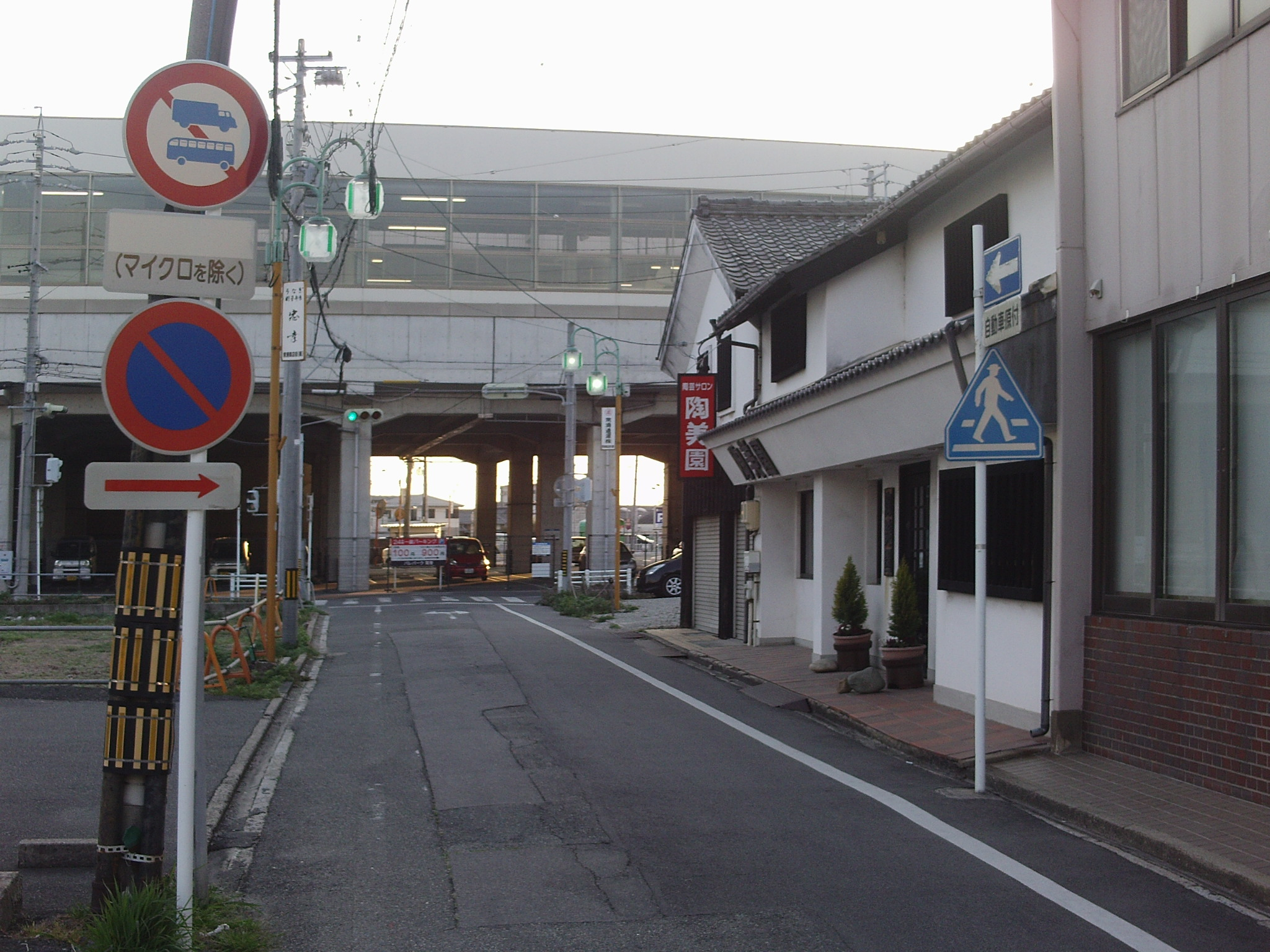 Aichi prefectural road No.268 in Koiehonmachi 6-chome Tokoname, Aichi. This is an old prefectural road.